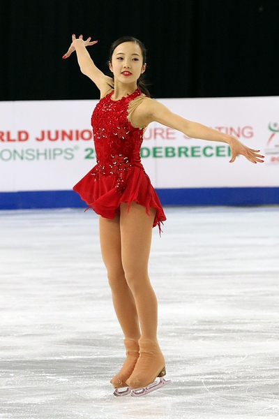 Photos – Junior World Championships 2016 – Ladies (Marin HONDA JPN – Gold Medal)